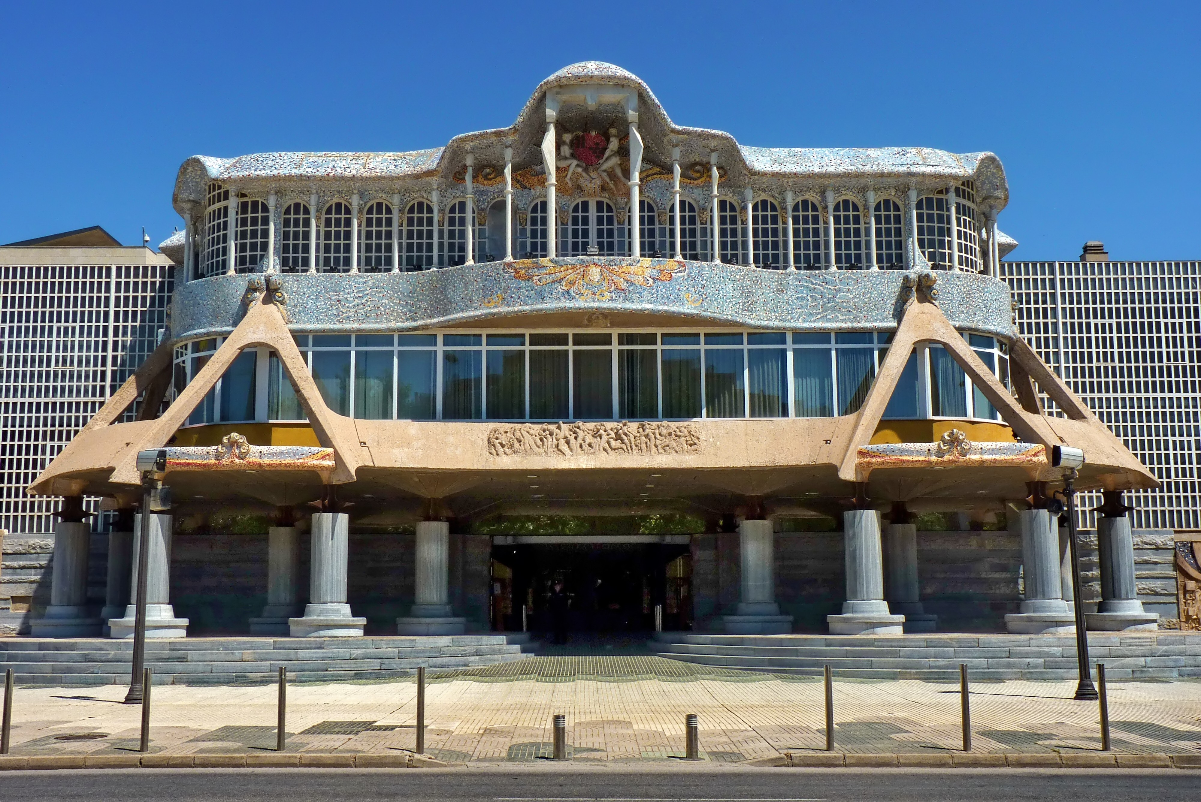 Building of the Regional Assembly of Murcia, autonomical parliament located in Cartagena (Spain).